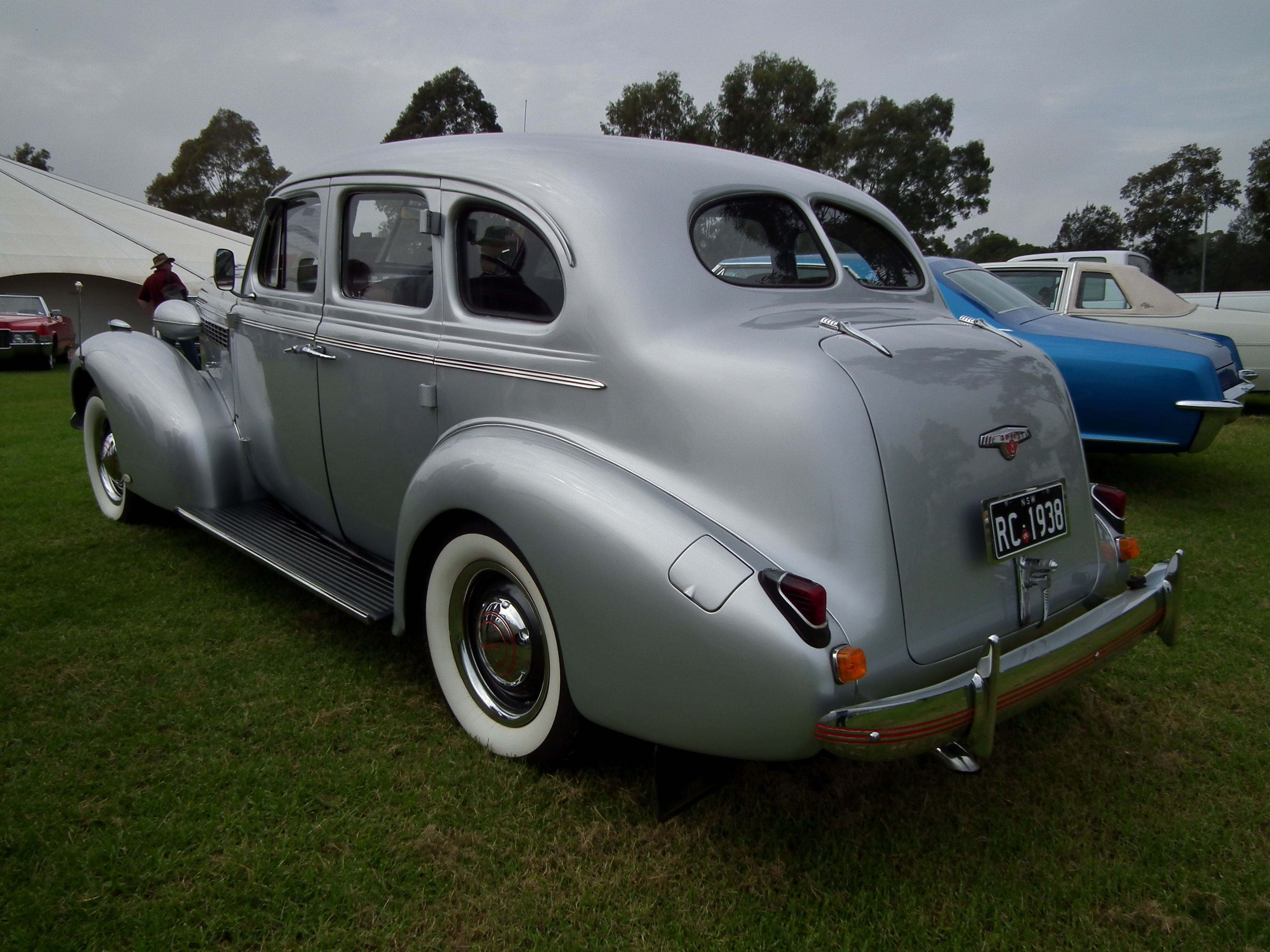 1938 Buick 8/40 Special sedan. Bodywork by Holden. Taken at the General Motors Display Day, held in the grounds of Penrith Panthers Club, Penrith NSW.